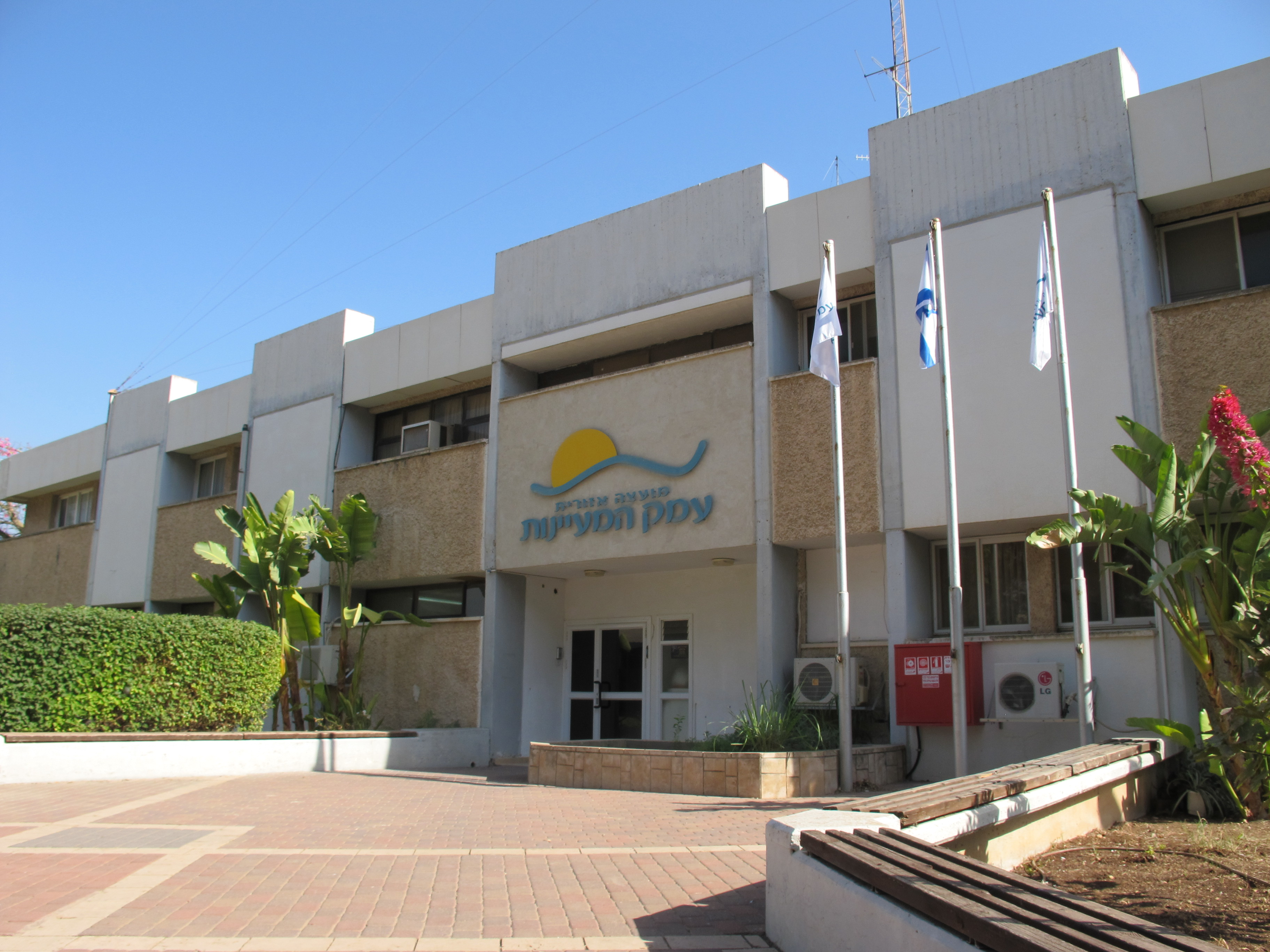 Photo of the regional council of the Valley of Springs.